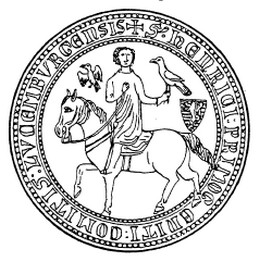 Henry VI of Luxembourg